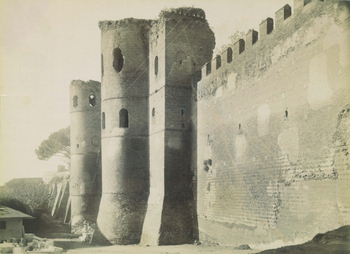 Porta Asinaria, Rome, Italy. Photo made around 1900